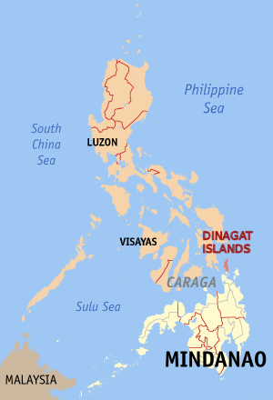 Map of the Philippines showing the location of Dinagat Islands